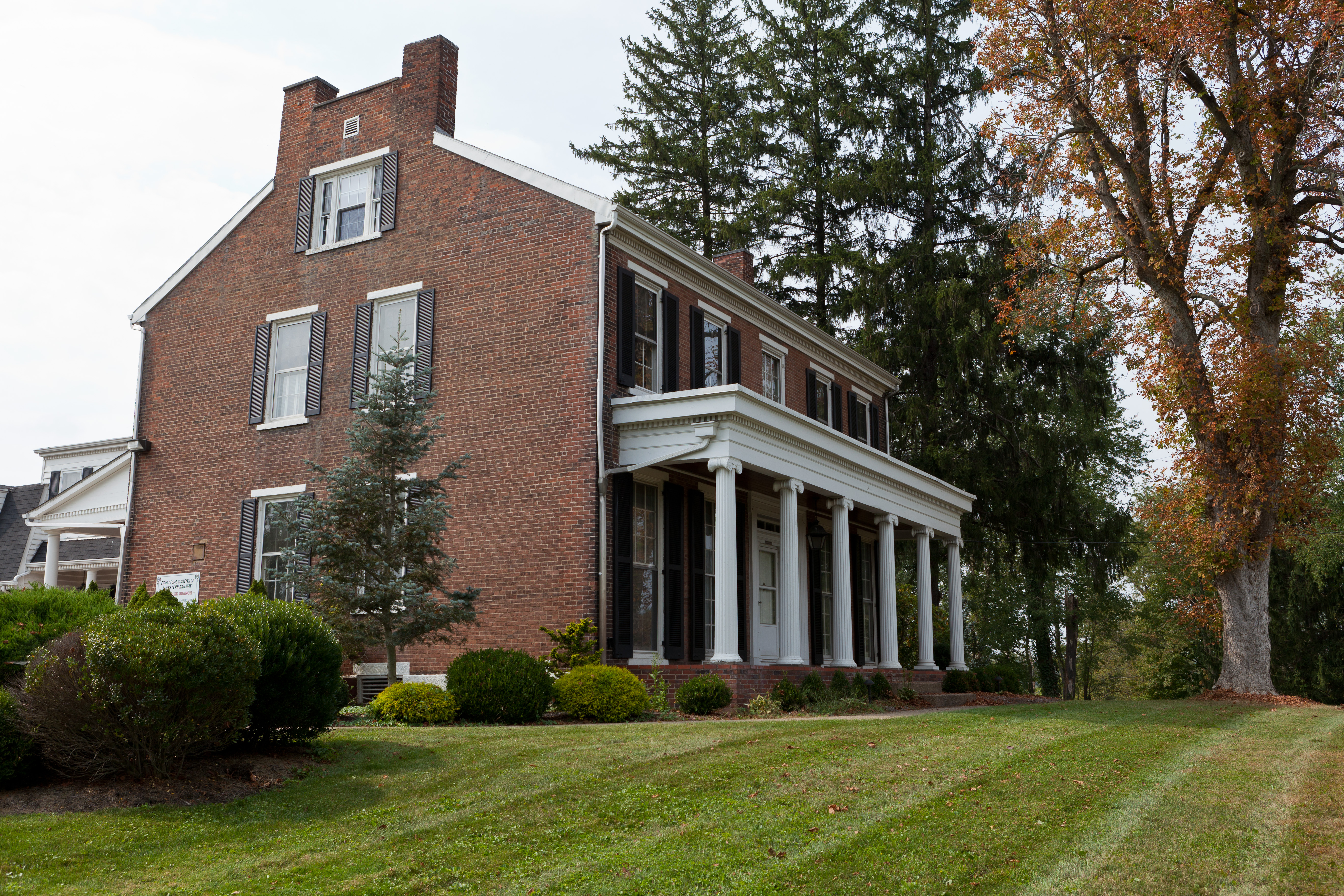 Samuel Brownlee House, North of Eighty-Four on Pennsylvania Route 519 North Strabane Township (left side)